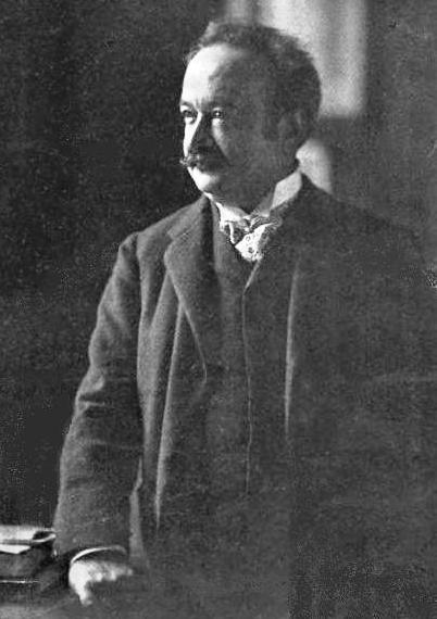 Oscar Blumenthal (1852-1917), German playwright, chess author and problemist